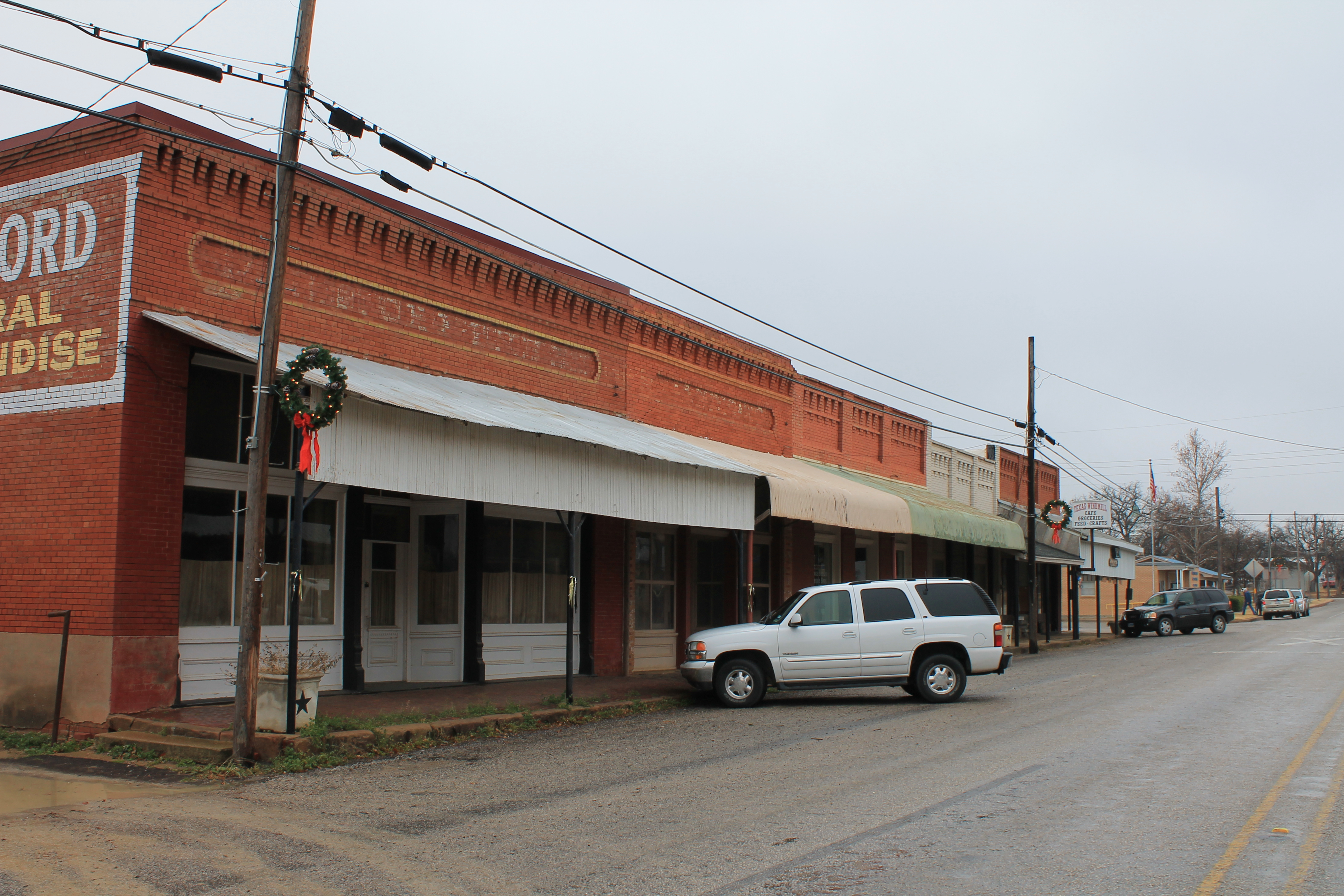 Gordon, Texas